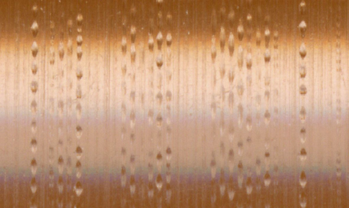 Phonograph cylinder No. 37 from the Filaret Kolessa collection (surface zoomed.) Sound quality: 4 of 5.